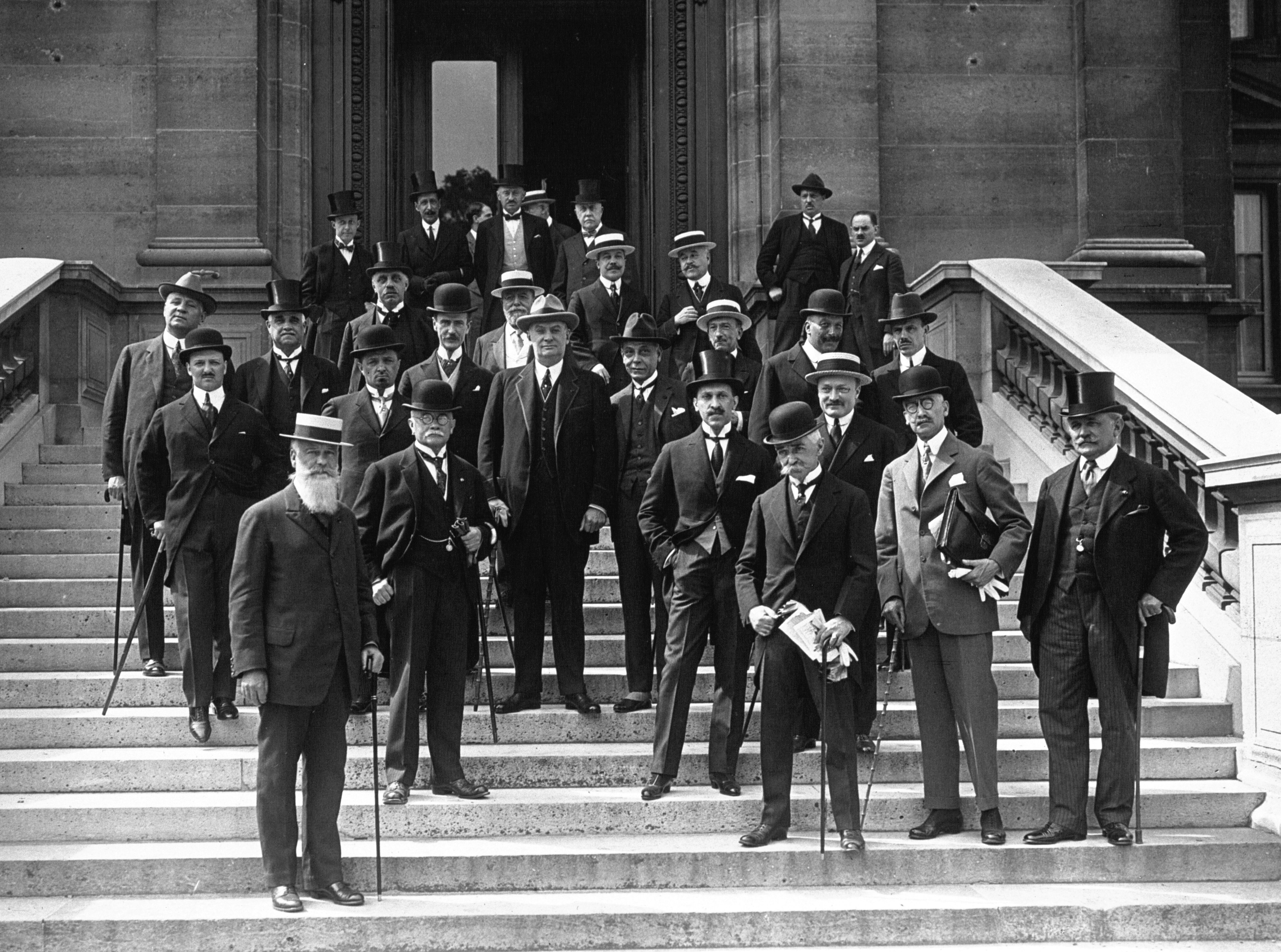 Members of the International Olympic Committee on the steps of the Ministry of Foreign Affairs in Paris in 1922.